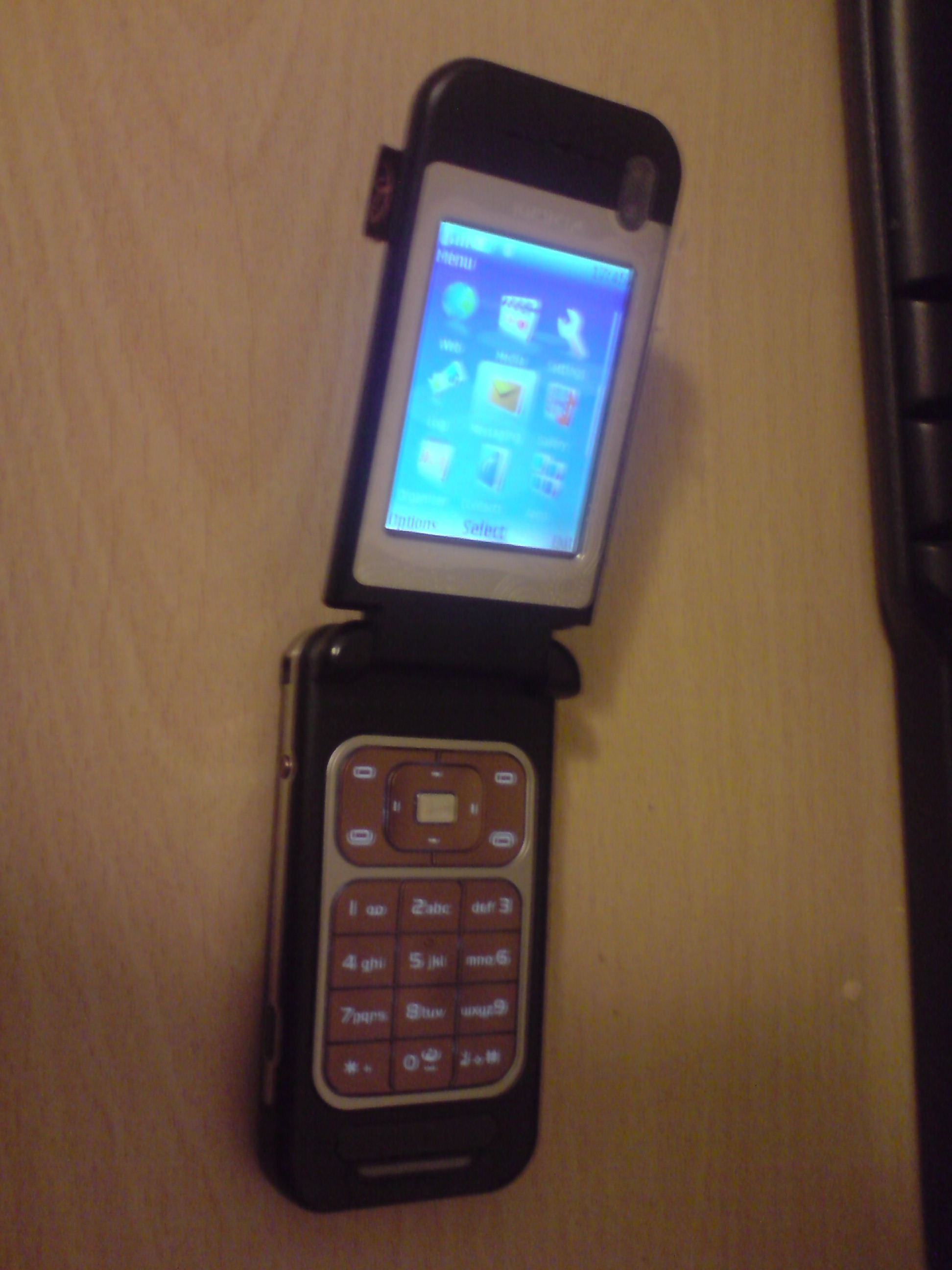 Picture of the Nokia 7390 (in black and copper) w/ flip open and showing the menu screen.